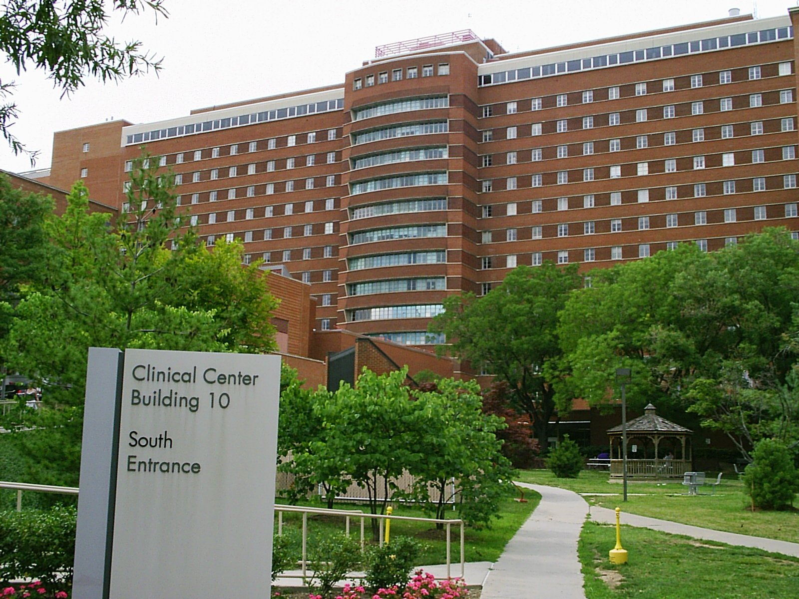 National Institutes of Health - Clinical Center (building #10) south entrance view. Located in Bethesda, Maryland USA.